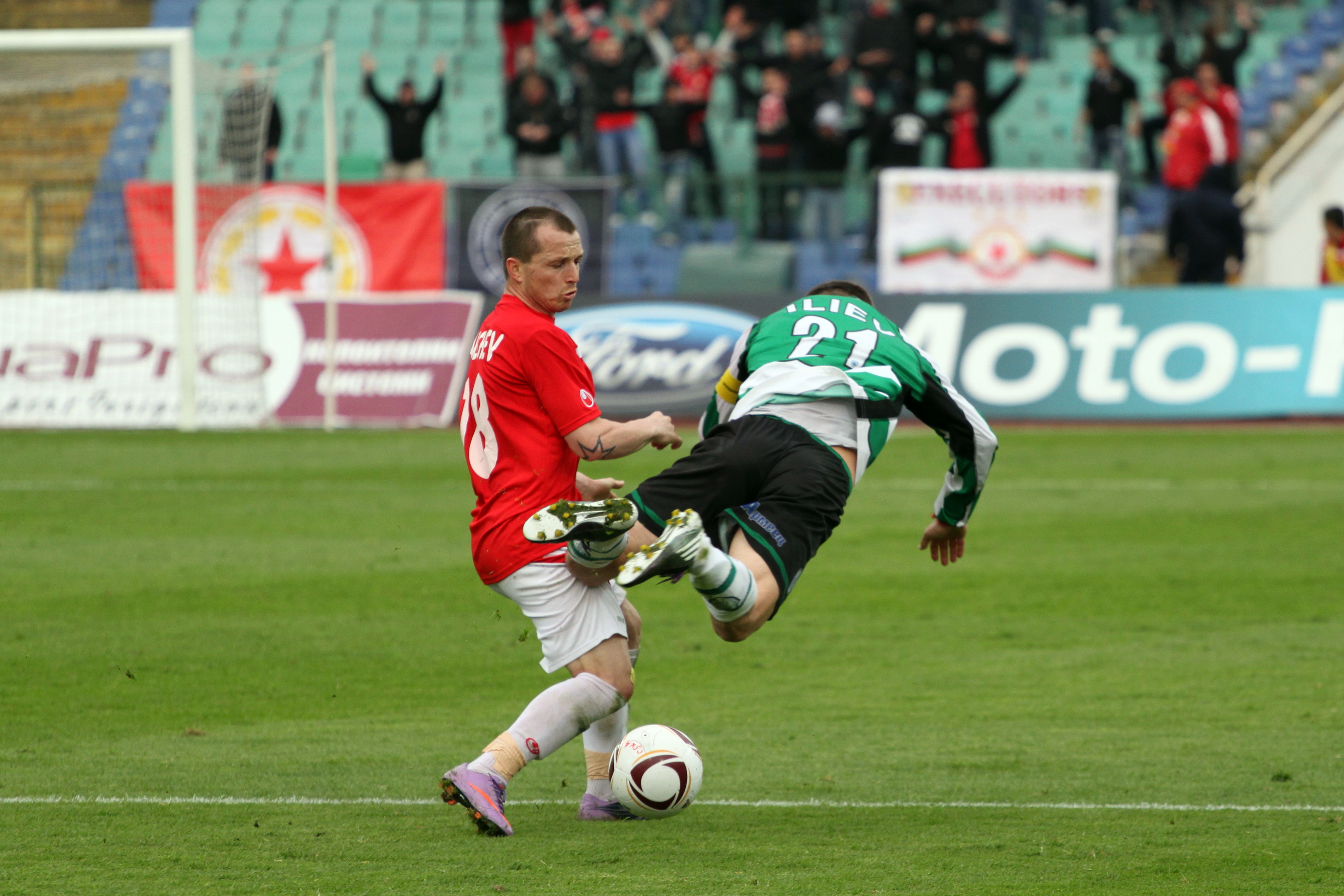 Boris Galchev (red team), fight the captain of Cherno more - Georgi Iliev, a moment of football match CSKA Sofia - Cherno More Varna, quarter final of the Cup of Bulgaria, which ended with victory for CSKA 2-0.